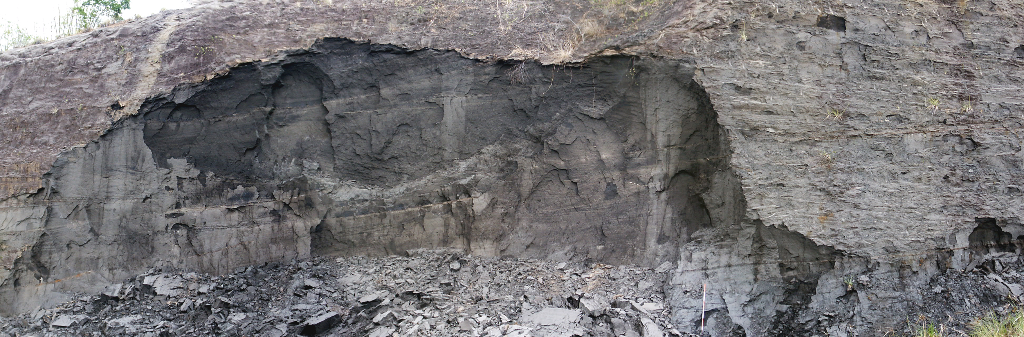 Oil sands of the lower L'Enfer Formation (Pliocene) exposed at the Stollmeyer Quarry, near Parrylands, Trinidad and Tobago. Coordinates are approximate.